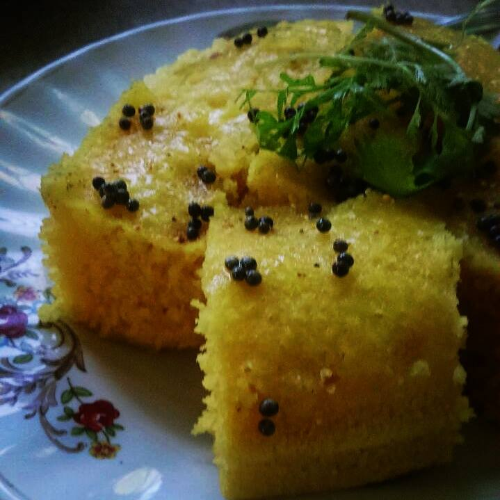 Gujrati cuisine.